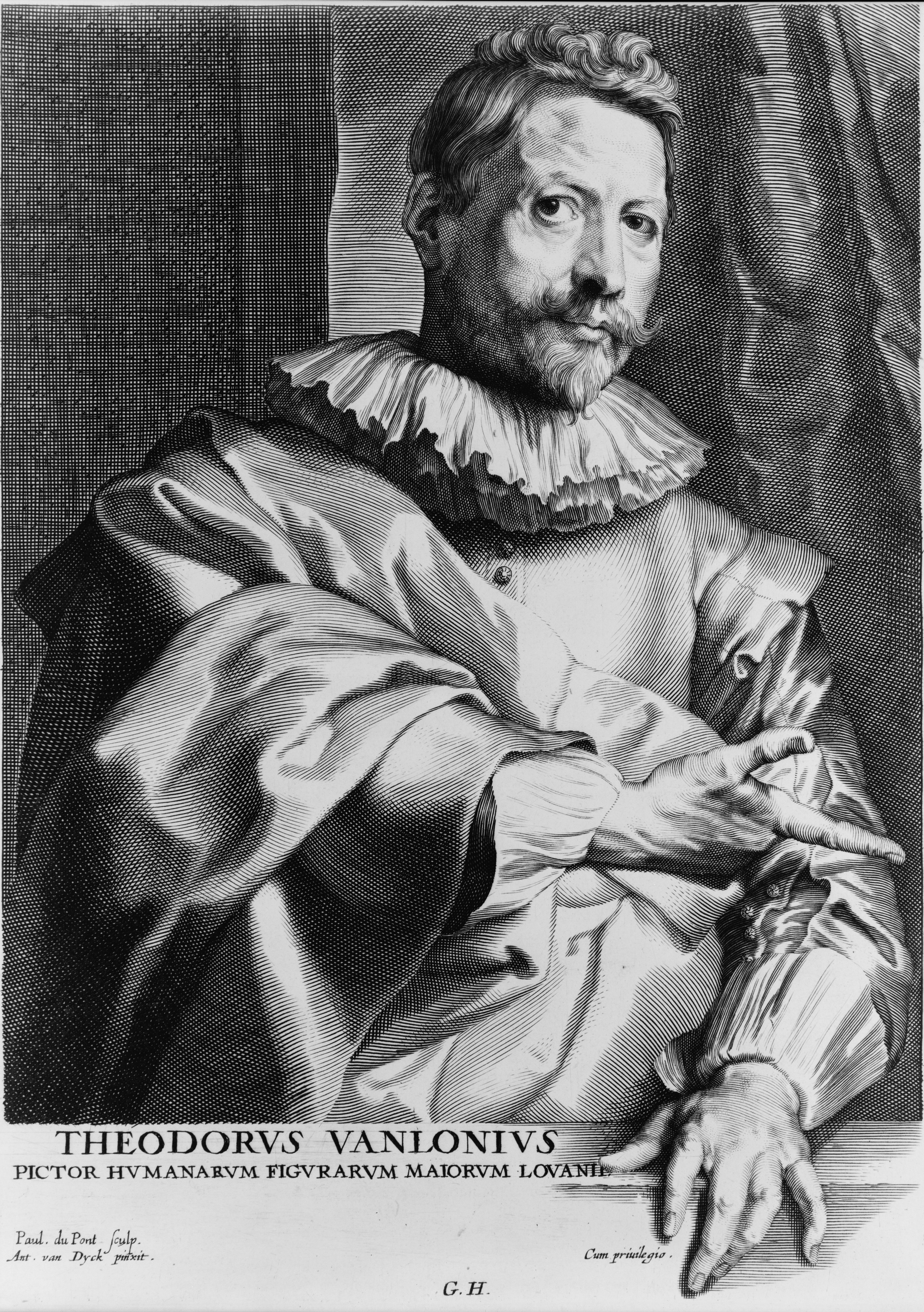 Title: Theodorus Vanlonius / Paul. duPont, sculp. ; Ant. van Dyck, pinxit. Abstract/medium: 1 print : engraving ; 24.7 x 17.7 cm.